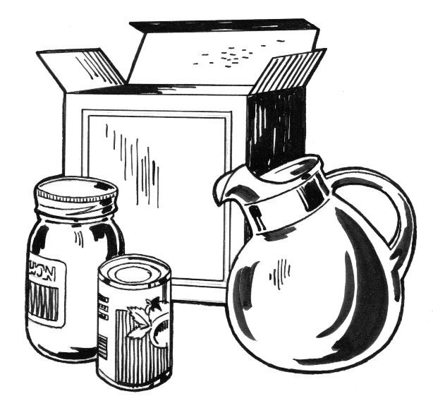 b/w line art drawing of containers